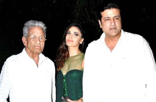 Rajkumar Kohli & Armaan Kohli at Rakesh Roshan's birthday bash.